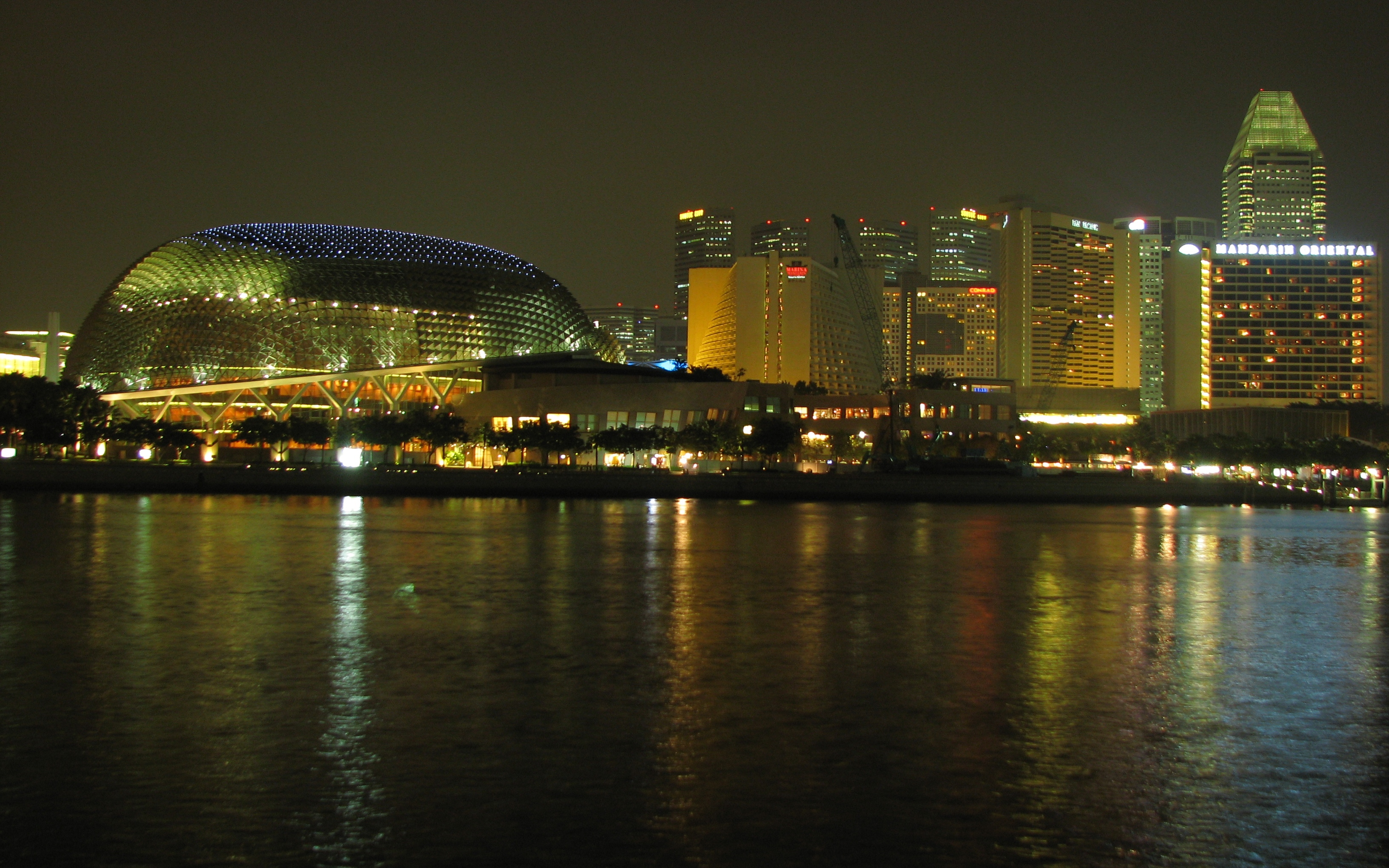 Singapore Marina Bay with Esplanade Theatres at the background